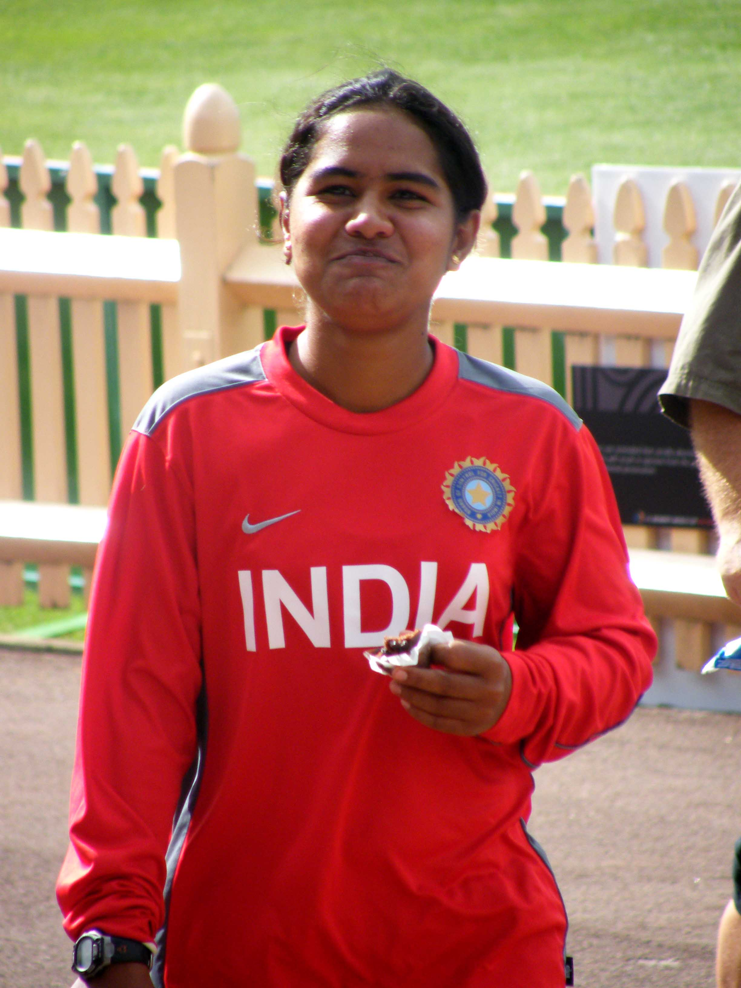 Gouher Sultana of India - ICC Women's Cricket World Cup, Sydney, March 2009.